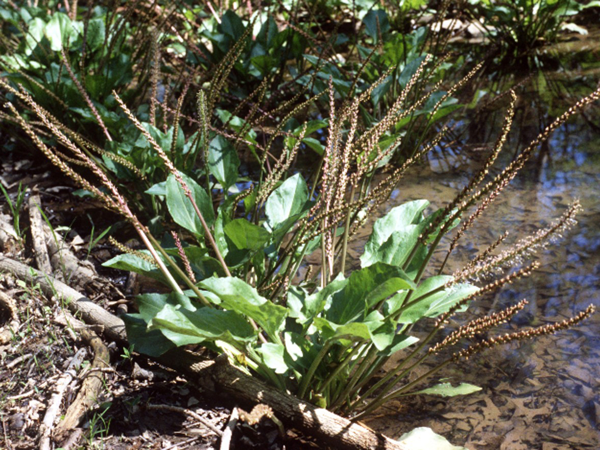 Plantago cordata Lam. - heartleaf plantain